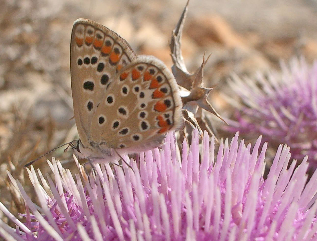 Description: Polyommatus icarus (on bloom)